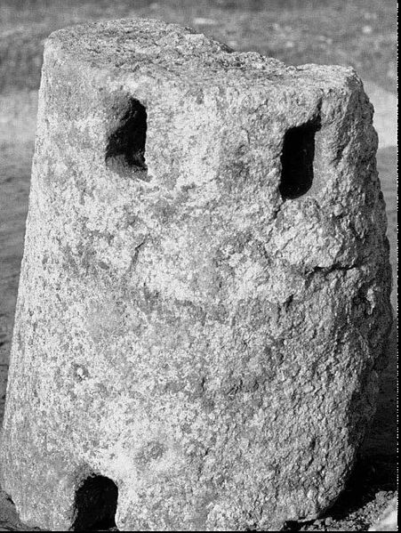 Oragiana type baethyl. Sardinia (Italy)